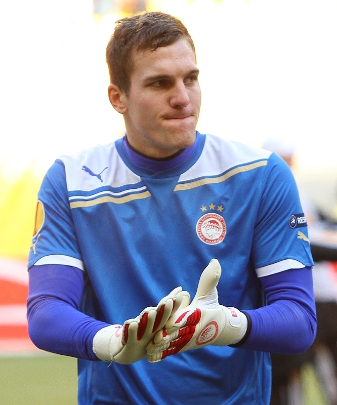 Balázs Megyeri as a player of Olympiacos F.C.